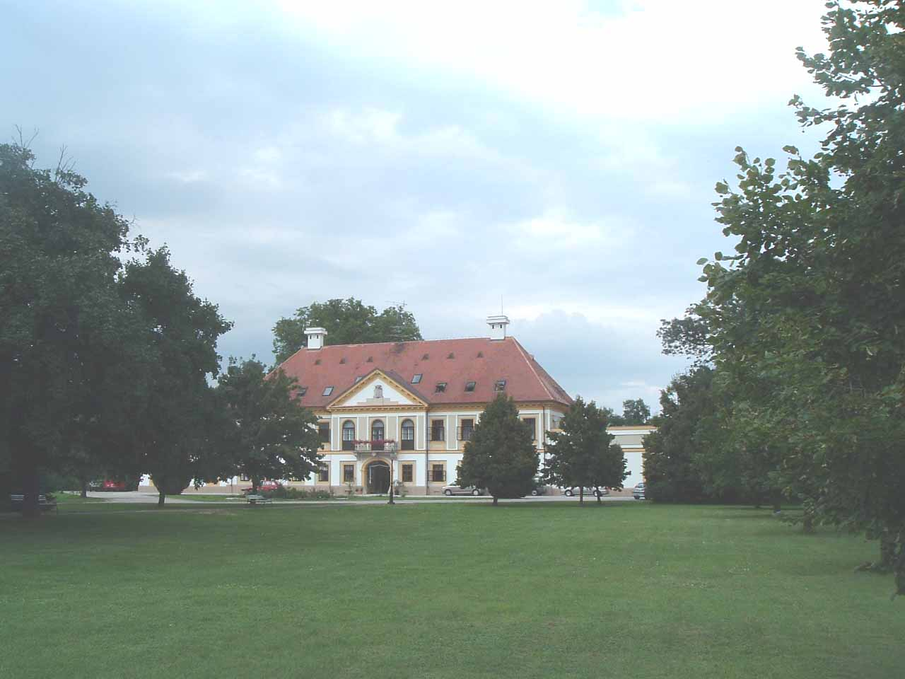 The New Ebergényi manor-house, Vasszécseny, Hungary This is a photo of a monument in Hungary. Identifier: 9482